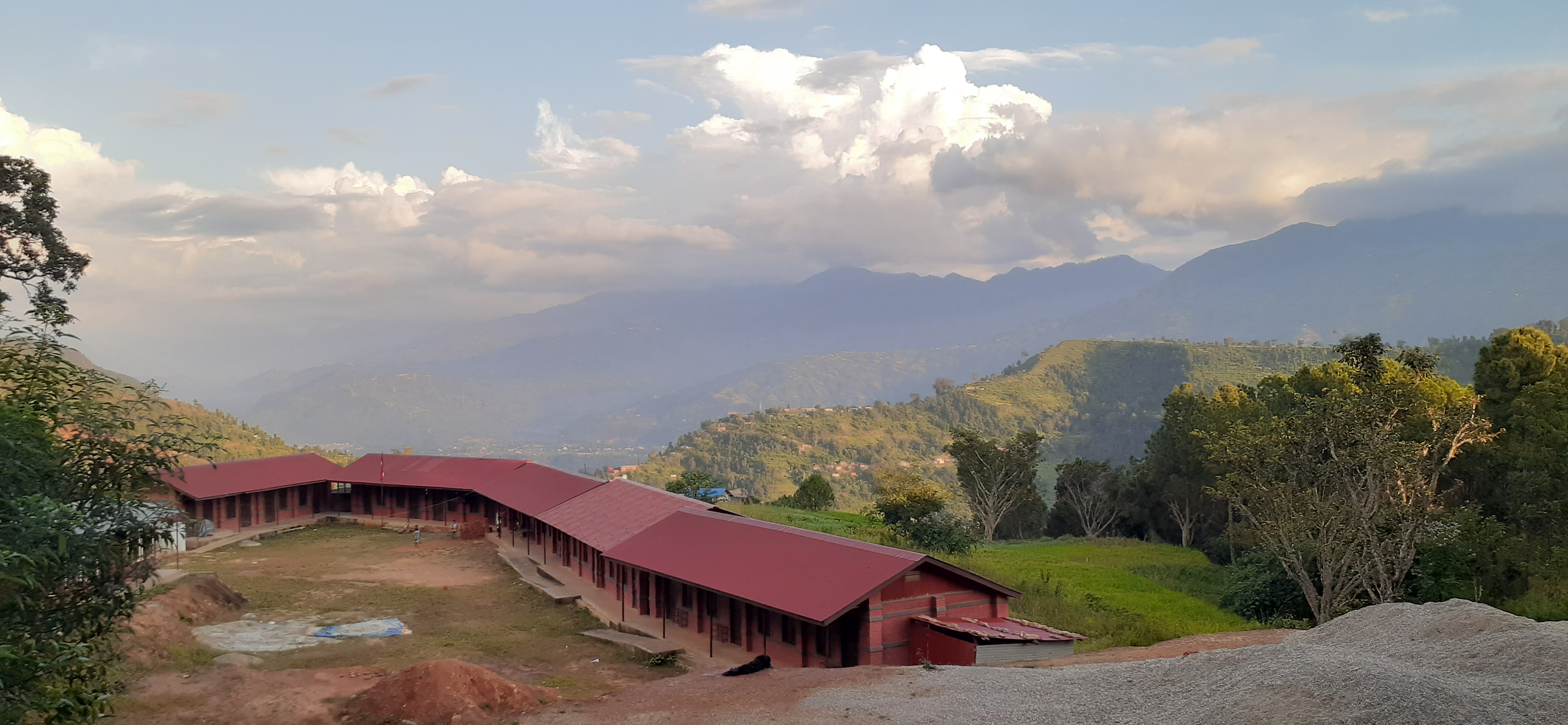 This is the Ward-6 of Tarakeshwar Rural Municipality. In picture there is school